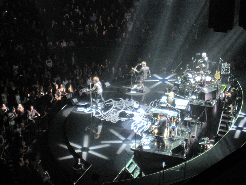 A huge 1980s phenomenon that continues to go on strong for over 27 years. This is my first Bon Jovi experience, and at only $40 for a seat close to the stage, I was not complaining. This was at Honda Center (formerly Arrowhead Pond), Anaheim, California.